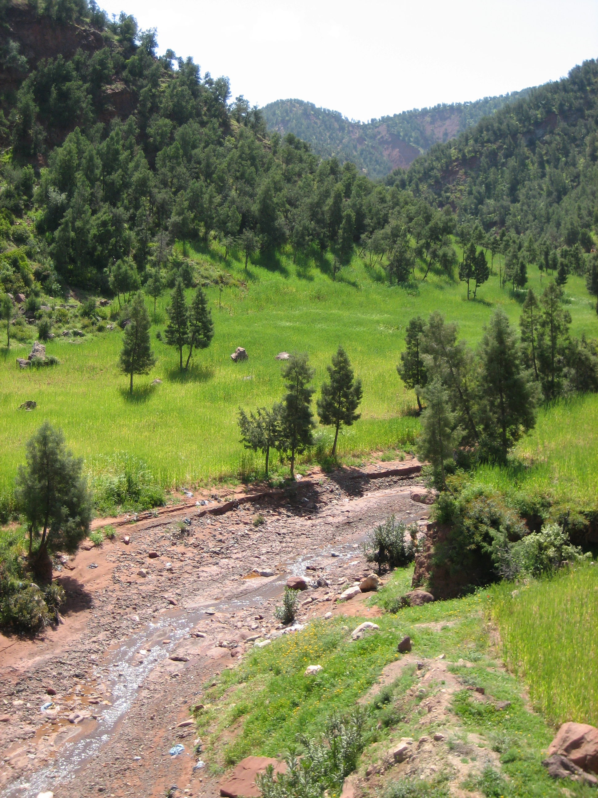 Tetraclinis articulata forest, with cereal cultivation in valley bottom. Ourika, Morocco.